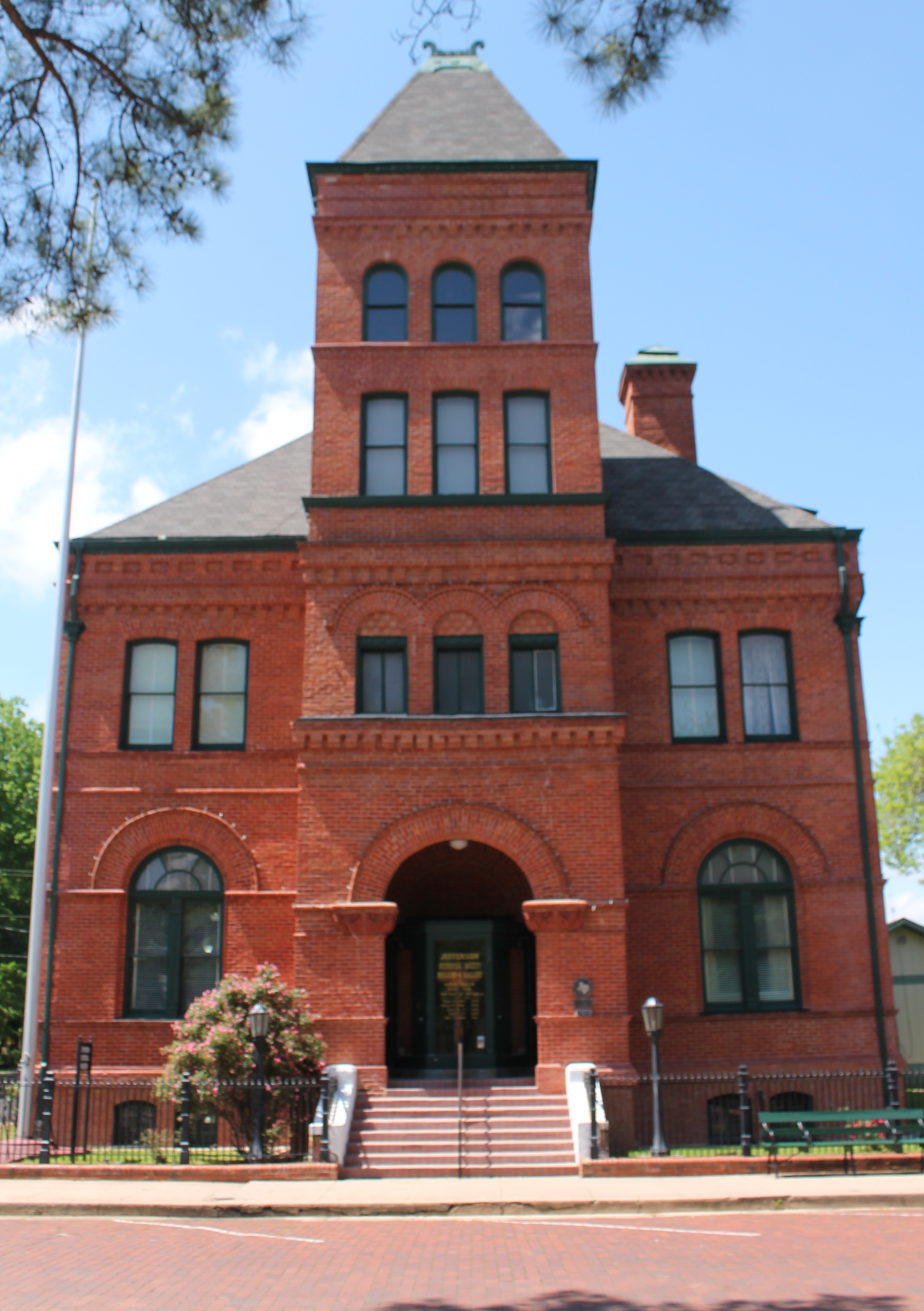 U. S. Post Office and Courthouse in Jefferson, Texas